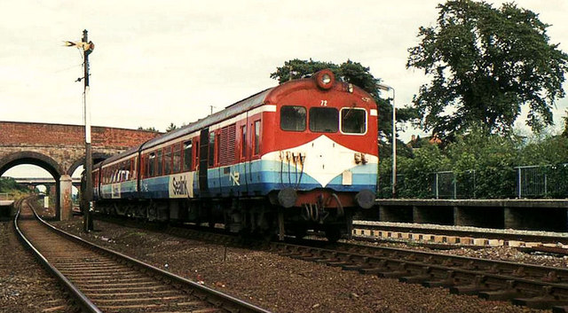 "Sealink train". Knockmore, Lisburn. See 1601712. The "Sealink" set passing Knockmore station with the 17.45 Portadown - Bangor. The platform on the other side of the Ballinderry Road bridge served the (single) third line to Antrim. That on the right was used by up trains to Portadown on the Dublin line. Due to insufficient space there was no equivalent down platform. The semaphore signal is the Lisburn down distant.